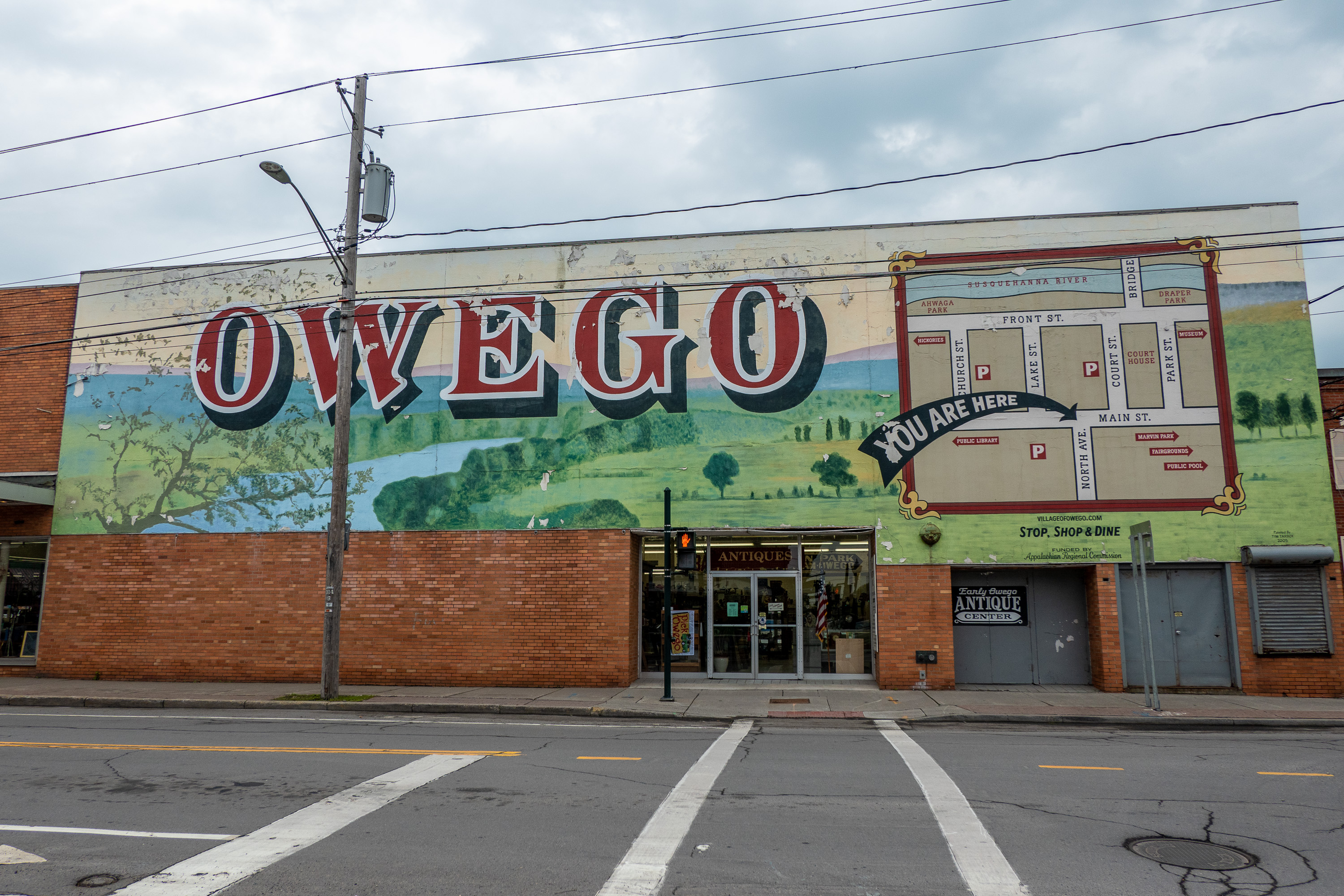 Sign on Main Street in Owego, New York